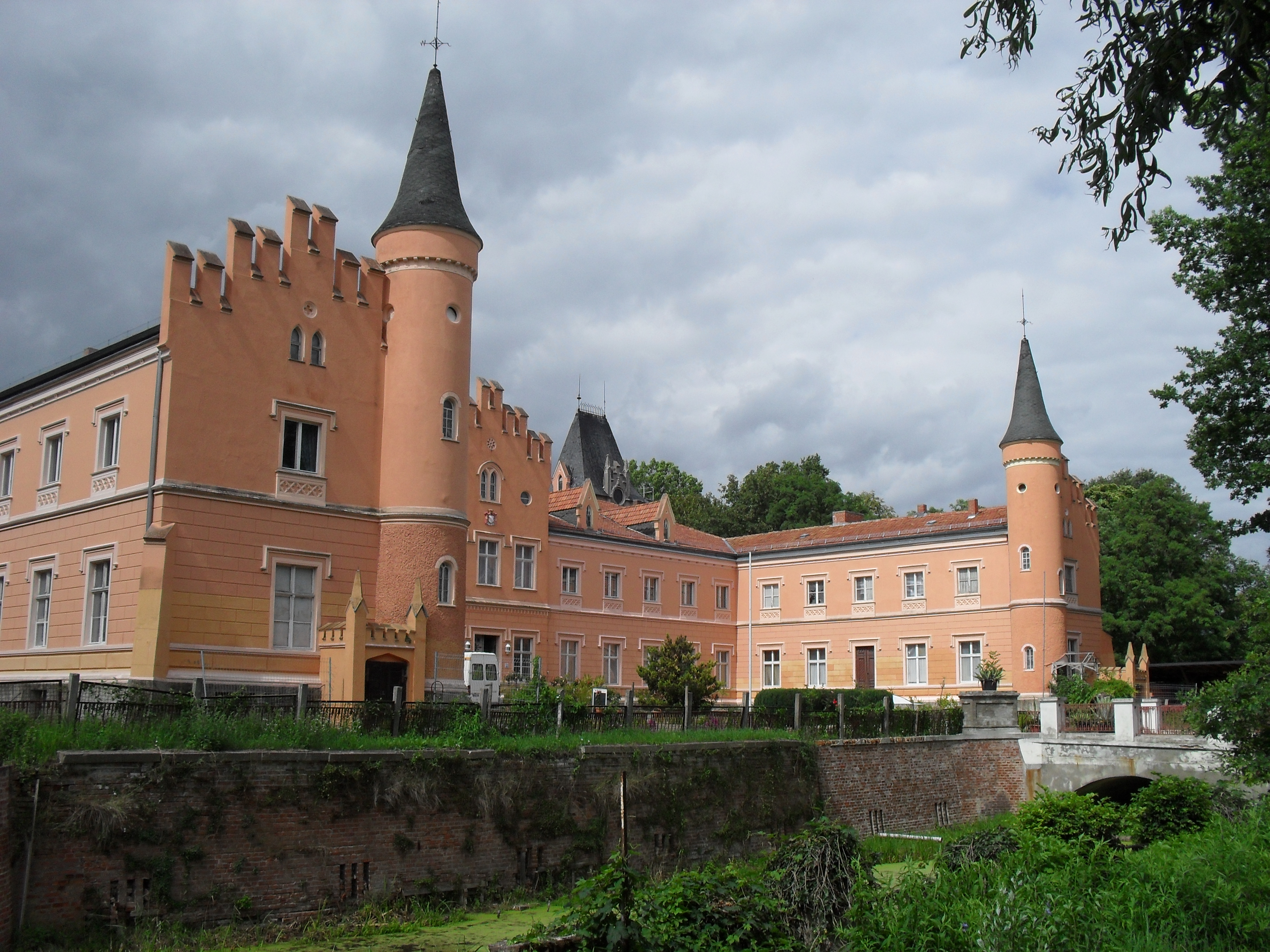 Gusow Castle, Germany